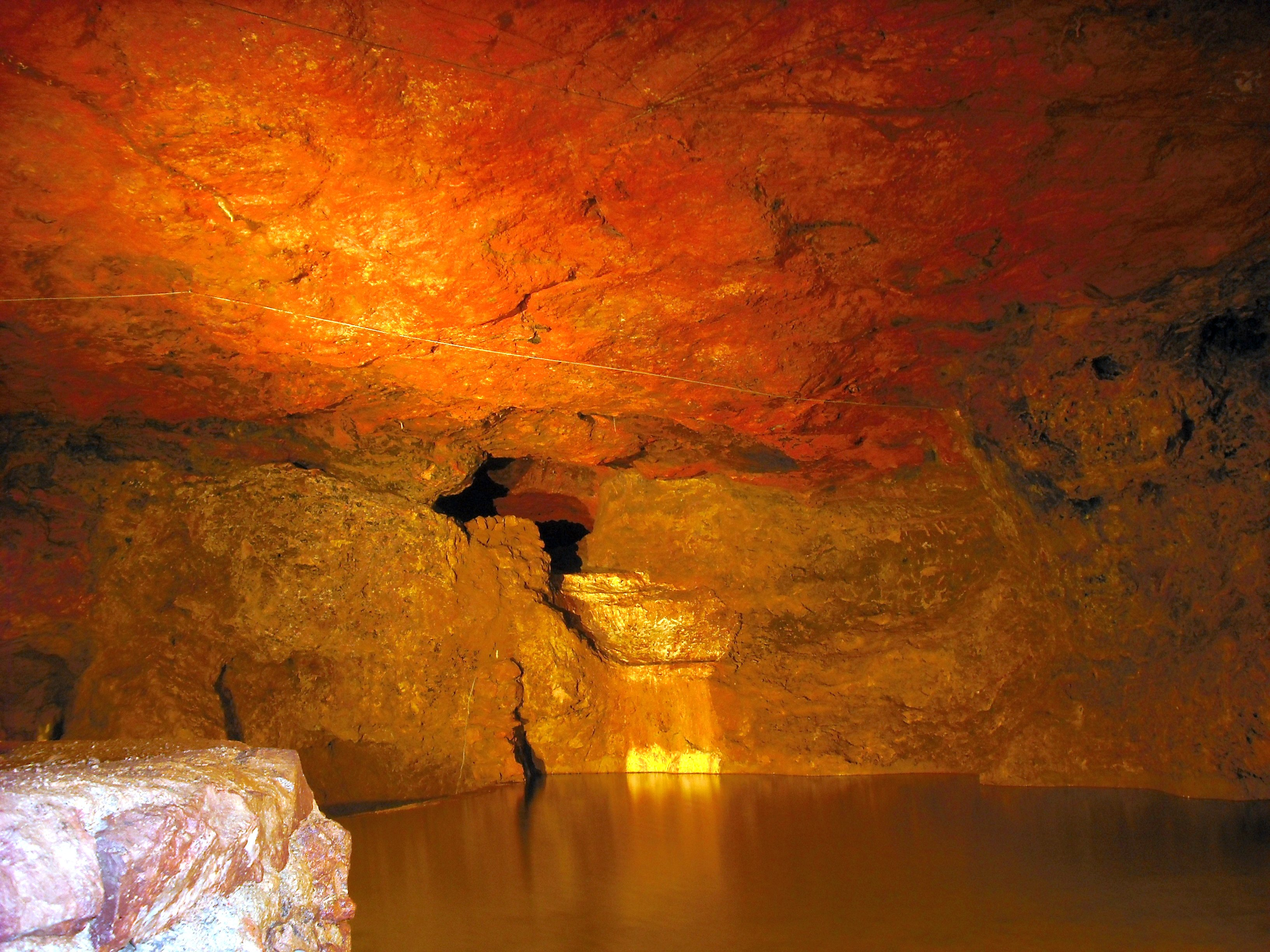 Lake within Clearwell Caves Note the bright red colour of the roof, owing to the iron ochre pigment for which the caves are known.